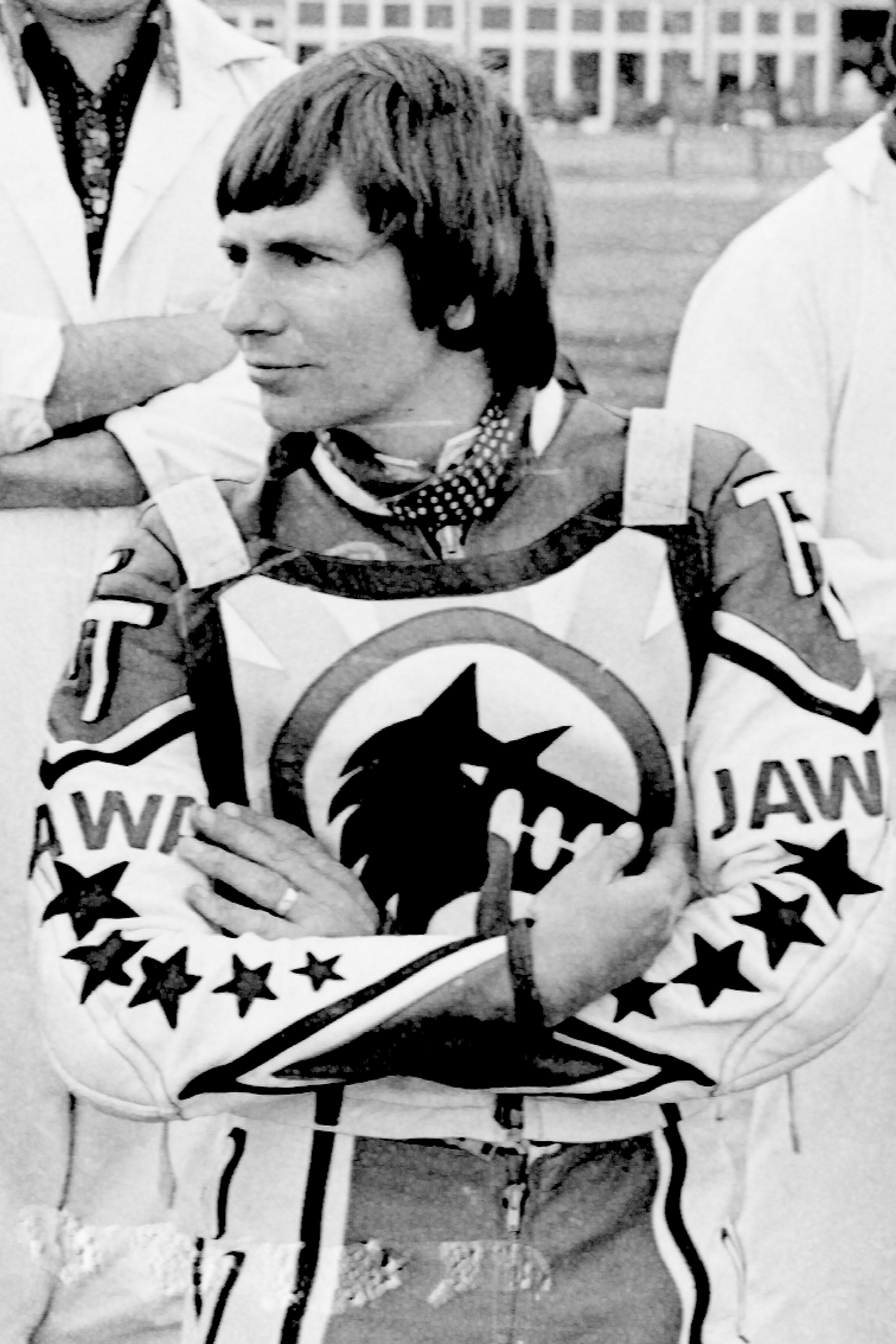 Wolverhampton Wolves away to Oxford Rebels.